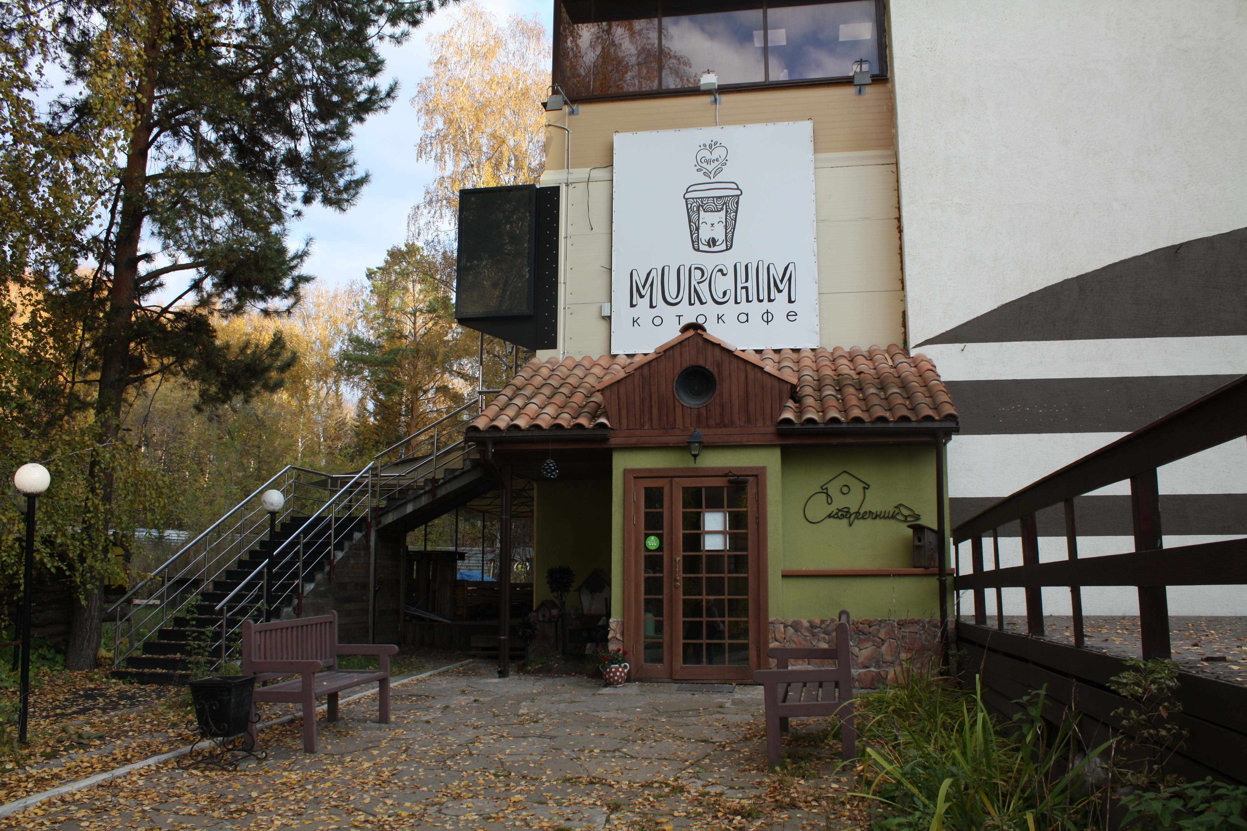 Murchim Cat Café, Sovetsky City District, Novosibirsk, Russia.